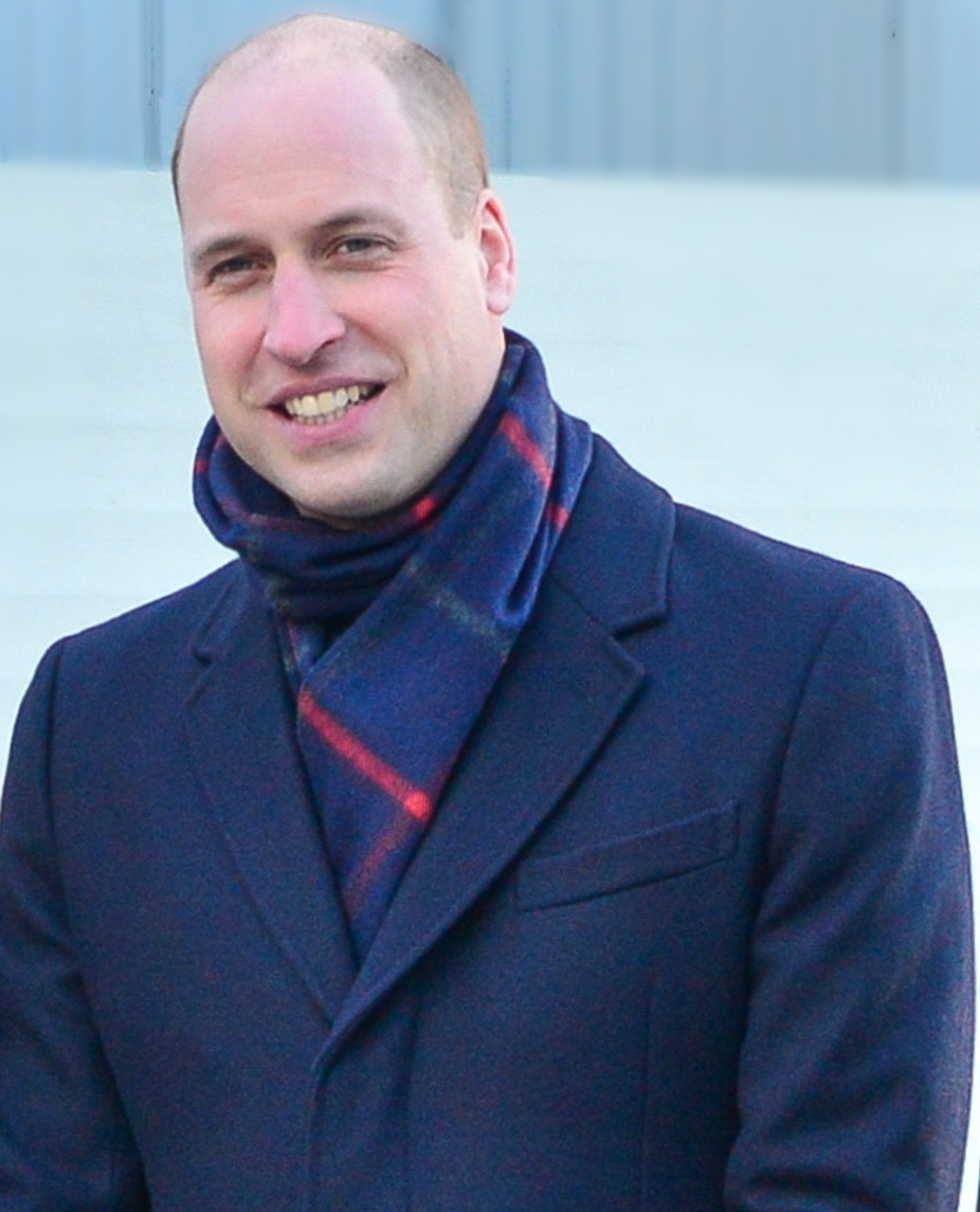 Prince William, Duke of Cambridge and Catherine, Duchess of Cambridge on official visit to Stockholm in Sweden in January 2018. On a walk in the Old Town of Stockholm together with Crown Princess Victoria and Prince Daniel, they meet swedes and tourists.